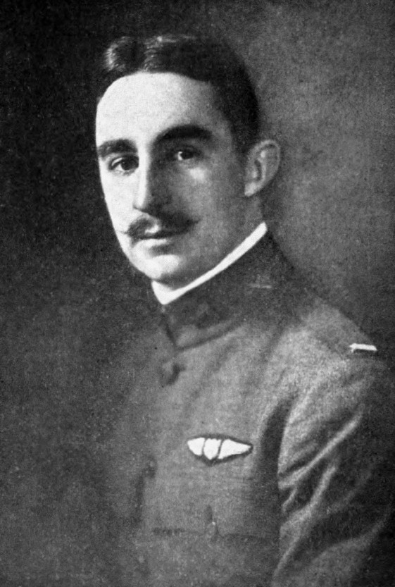 Photograph of Lieutenant Leslie Rummell, American World War I flying ace credited with 7 kills.